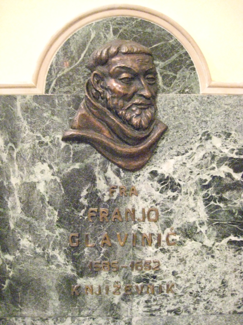 A relief by Zvonimir Kamenar (1939-) in the Church of Our Lady.